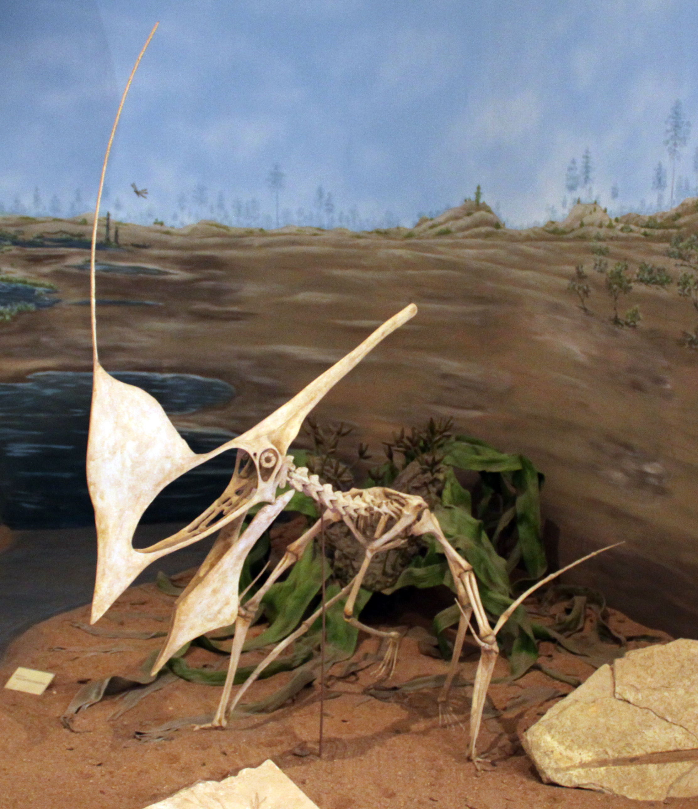 Museu National, Rio de Janeiro